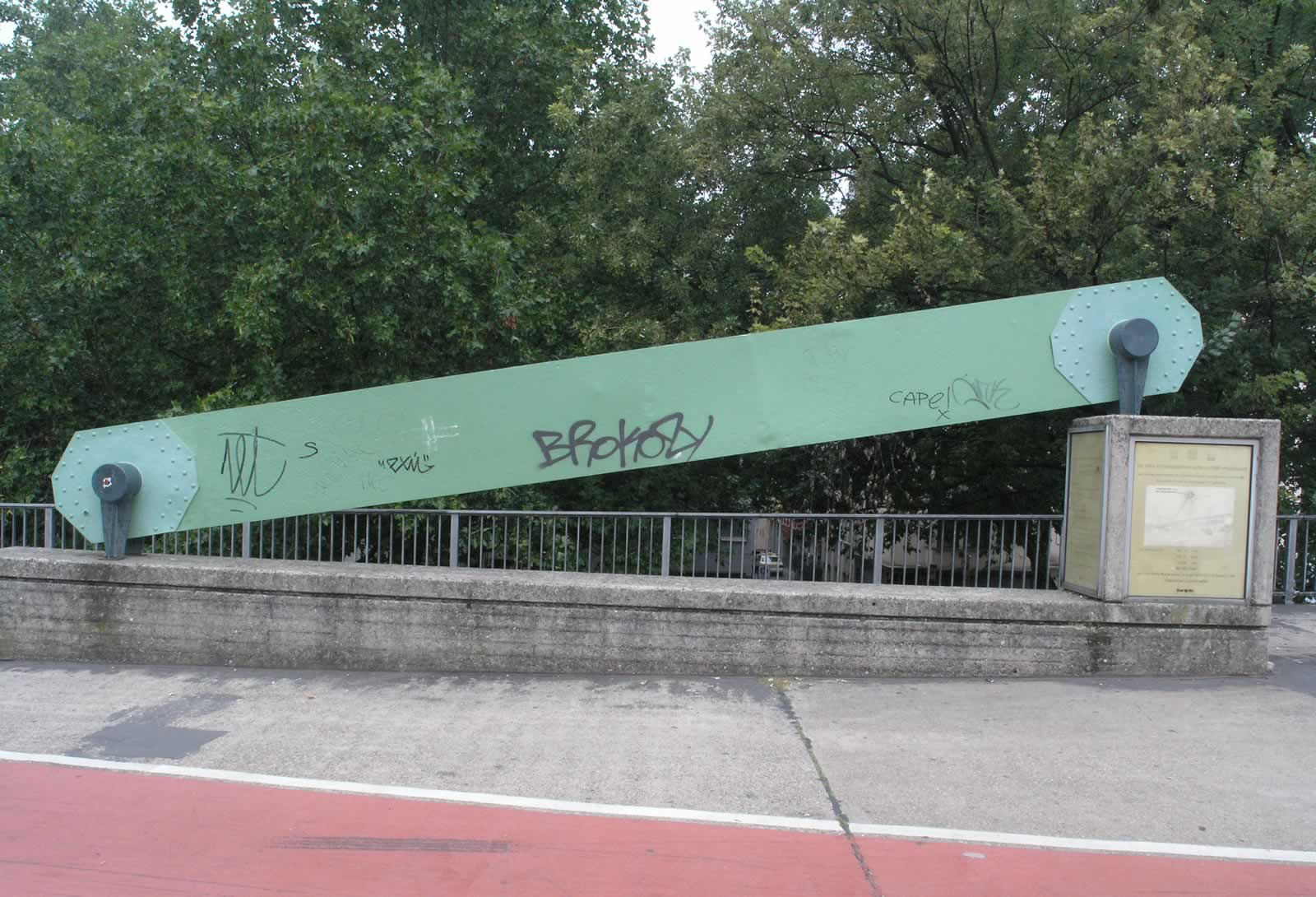 An eyebar of the eyebar suspension chain of the former Deutzer Hängebrücke in Cologne is displayed on the left riverside next to the northern walkway.